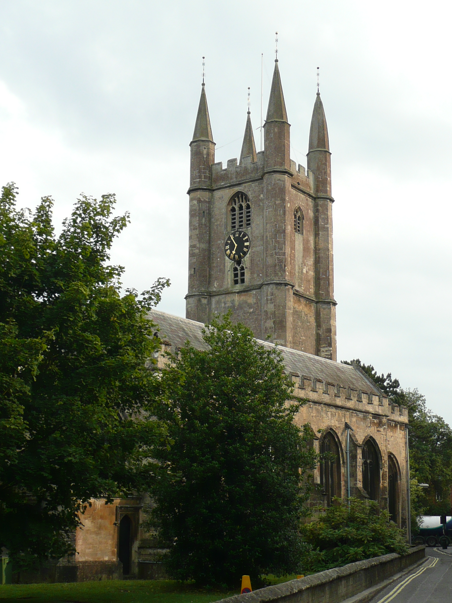 Former parish church of SS Peter and Paul (NOT Mary), Marlborough, Wiltshire, seen from the northeast